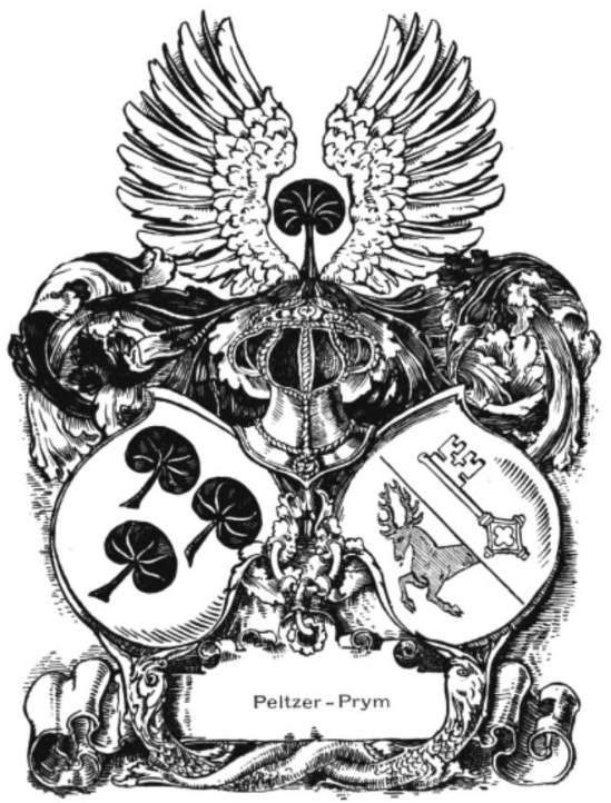 The picture shows the Arms of Alliance of the Peltzer and Prym family. The families both stem from Aachen and later migrated to the nearby city of Stolberg.